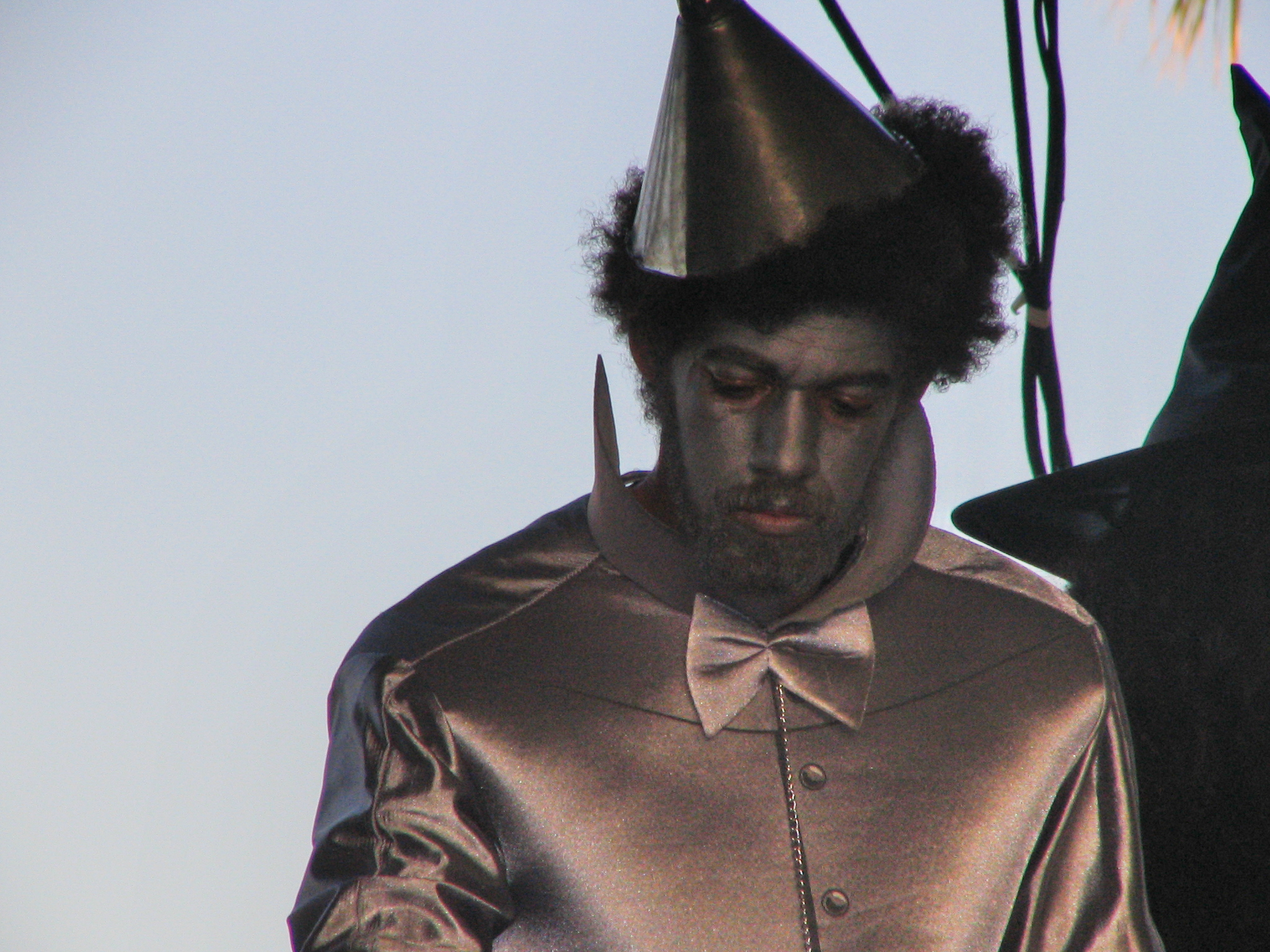 Danger Mouse (of Gnarls Barkley) as the Tin Man